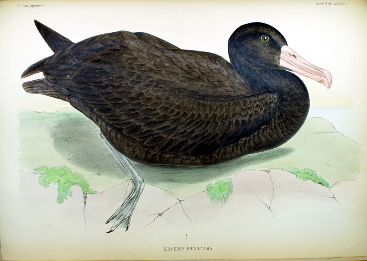 An illustration of a Black-footed Albatross (Diomedea brachyura = Phoebastria nigripes) from Fauna Japonica